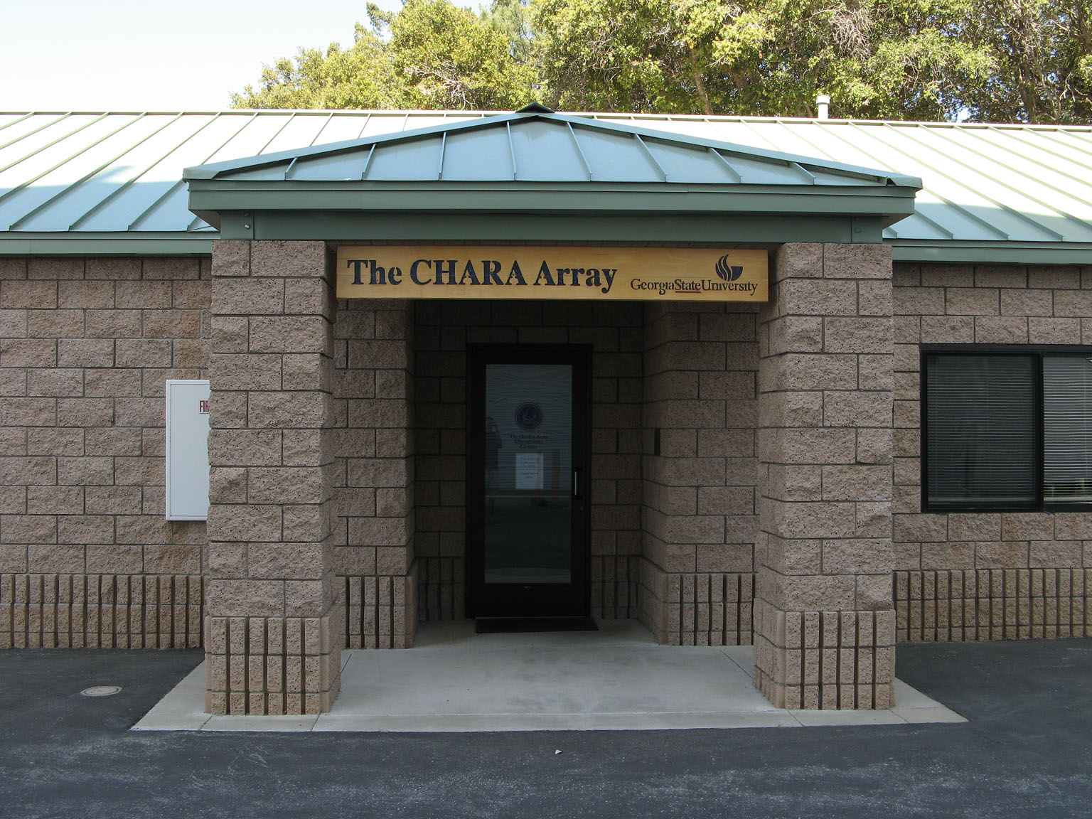 The operation center of the CHARA Array at Mount Wilson Observatory.